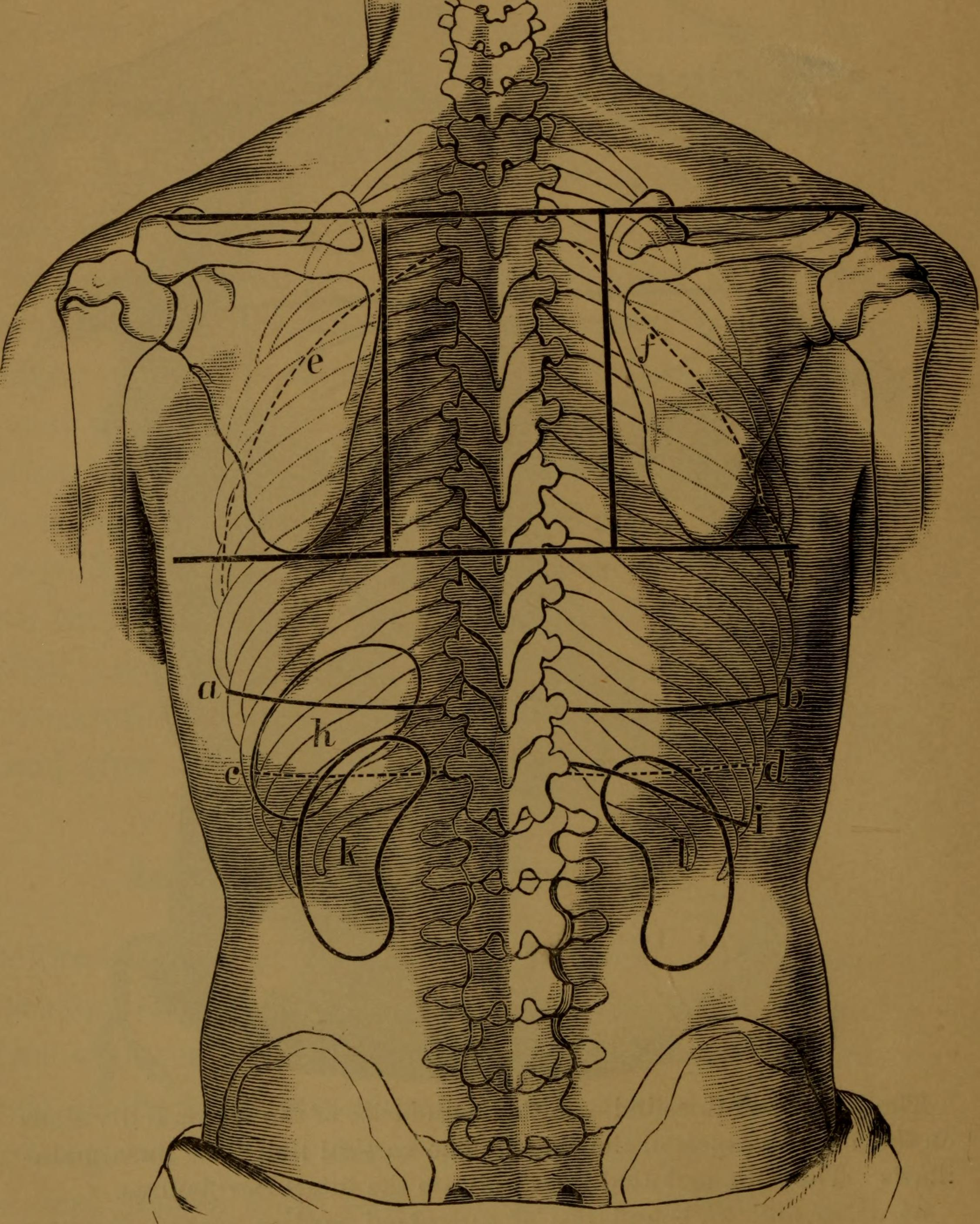 Title: A manual of auscultation and percussion : embracing the physical diagnosis of diseases of the lungs and heart, and of thoracic aneurism Year: 1890 (1890s) Authors: Flint, Austin, 1812-1886 Wilson, J. C. (James Cornelius), 1847-1934 Subjects: Percussion Auscultation Percussion Auscultation Publisher: Philadelphia : Lea Brothers & Co. Text Appearing Before Image: The horizontal lines indicate the boundaries of the regional divisionson the anterior aspect of the chest. The vertical line is the linea mam-illaris. The oblique dotted lines indicate the interlobar fissures. ab, ac, cd, and bd, boundaries of superficial cardiac space, ik, outerboundary of deep cardiac space; ce, lower boundary of right lung; df,lower boundary of left lung; gh, upper boundary of right and left lung;Im, lower boundary of hepatic flatness; pq, upper boundary of hepaticdulness; no, lower boundary of the stomach moderately distended. 36 INTRODUCTION variable height to which the lung rises above this bone.The clavicular region embraces the space occupied by Fig. 2. Text Appearing After Image: The longitudinal and vertical lines indicate the regional divisions onthe posterior aspect of the chest. ab, lower boundary of lungs; cd, lower limit of expansion of lungs:ef, interlobar fissures; h, spleen; flower boundary of liver; k, leftkidney; I, right kidney. REGIONAL DIVISIONS OF THE CHEST. 37 the clavicle. The infra-clavicular region embraces thespace between the clavicle and the third rib. Themammary region is bounded above by the third and Fig. 3.